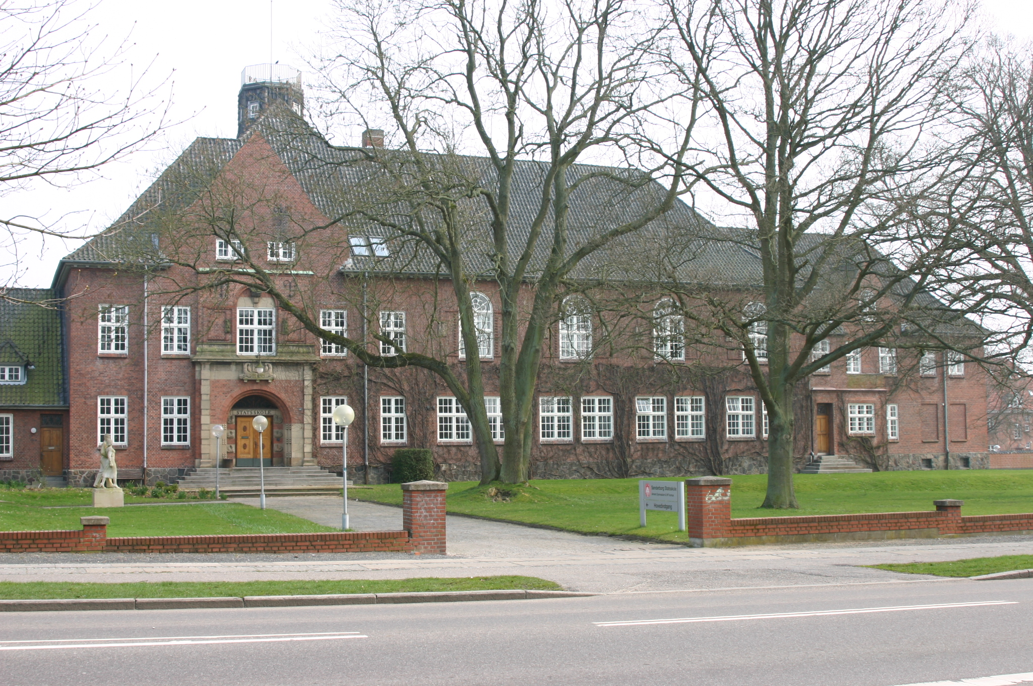 High School of Sønderborg, Denmark Sønderborg Statsskole